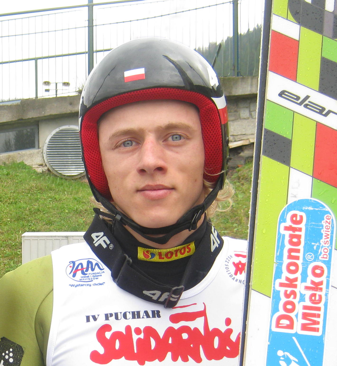 Dawid Kubacki at 4th "Solidarność" Cup in Zakopane, Poland